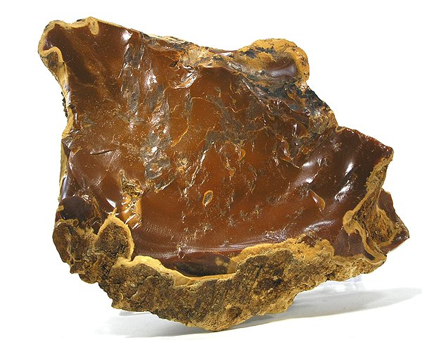 Opal (Var.: Wood Opal) Locality: Rhodope Mts, Haskovo Oblast (Khaskovo Oblast), Bulgaria (Locality at ) Though it does not have the iridescence associated with the commonly-known forms of opal, this material from Bulgaria is referred to as "wood-opal" for its fine, dense texture and mineralization by silica, replacing the original wood. You can see the very bark-like exterior still intact, and the center has been completely mineralized. This specimen came out of an Eastern European museum collection, as you can see from the label. Rare in this quality! 12.1 x 10.8 x 5.9cm